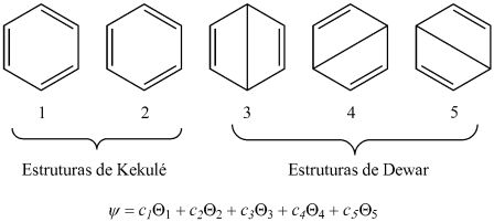 vb aromaticidade